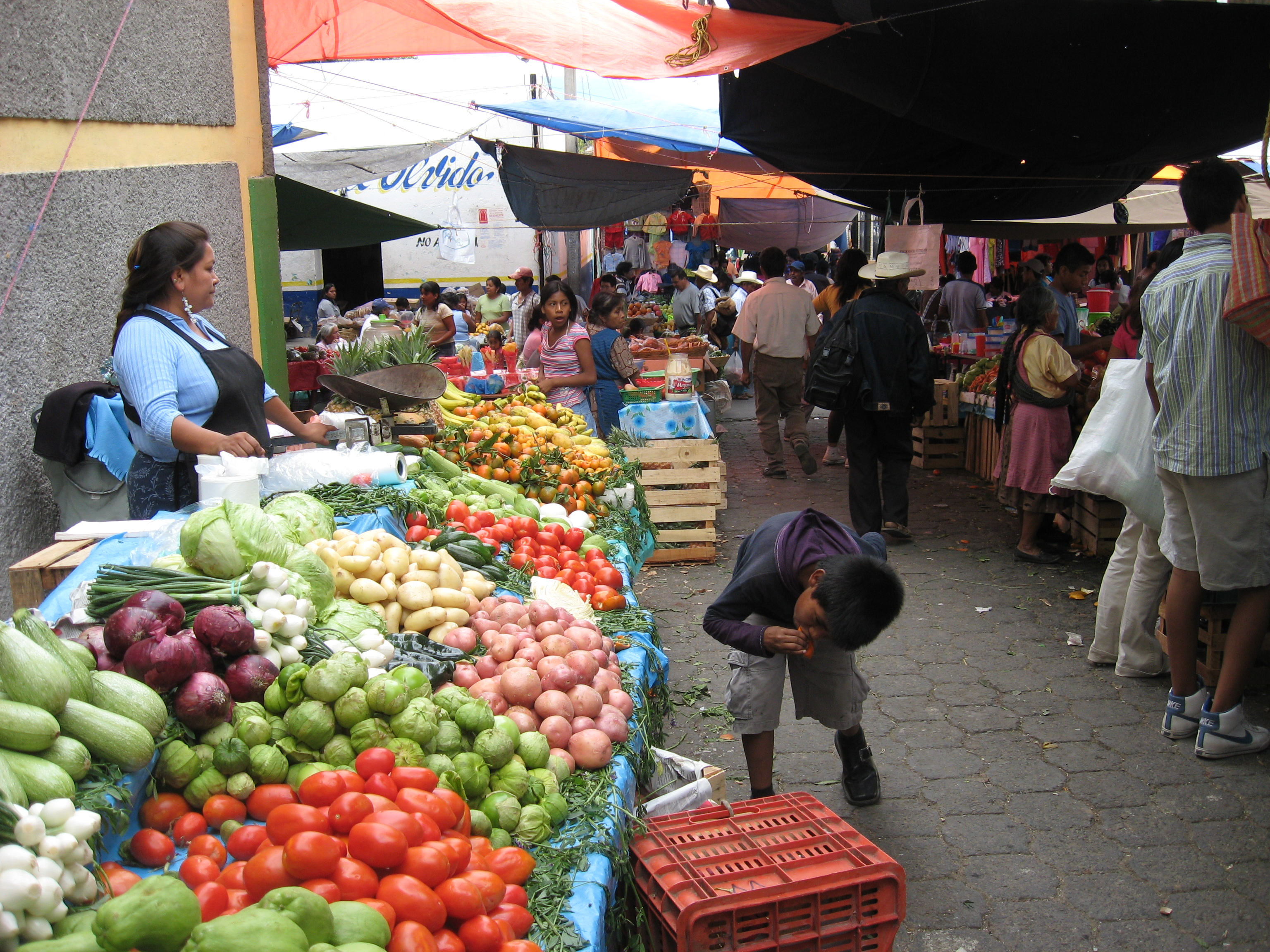 Outdoor market in Teotitlan de Flores Magon